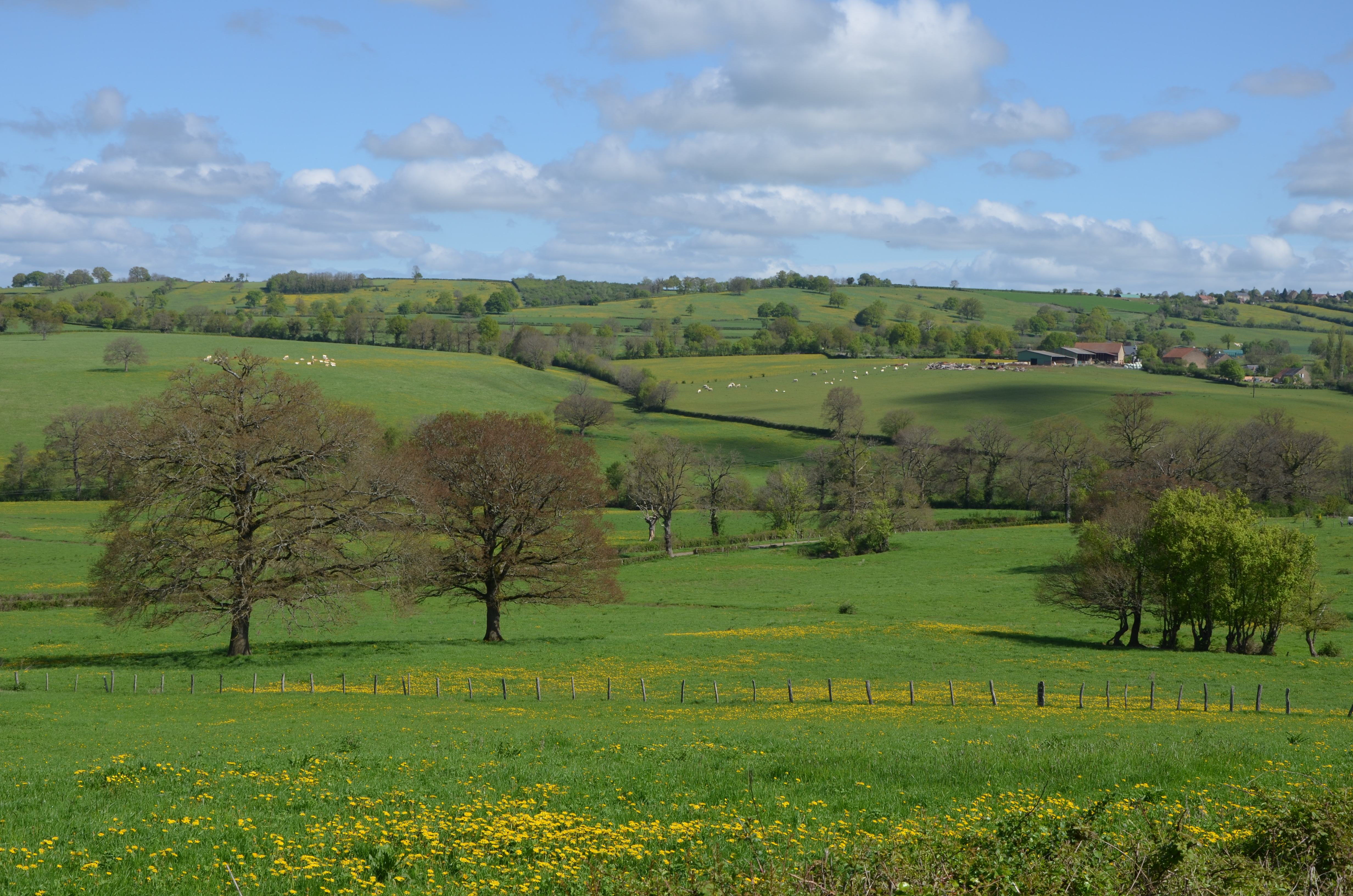 Meadows in the Morvan near Corbigny, France